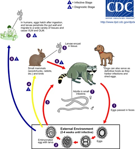 Life cycle of Baylisascaris procyonis.